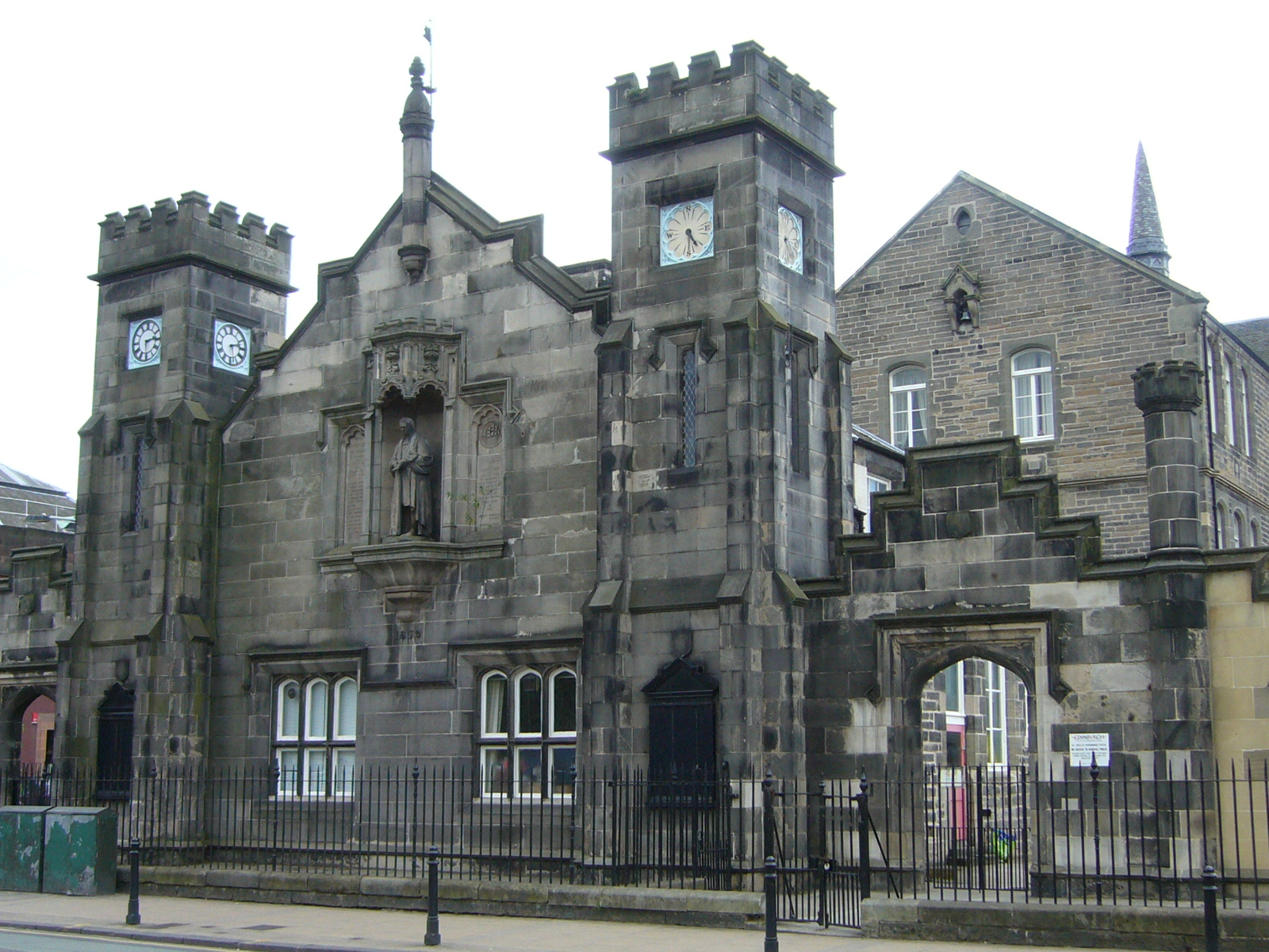 School founded by Dr. Bell, erstwhile Chaplain to the East India Company in Madras in 1787. Given charge of the Madras Male Orphan Asylum and faced with a shortage of teachers, he introduced a new form of tuition known as the 'Madras System'. It involved the teacher explaining the work, which was then passed over to monitors, i.e. older boys who worked with the younger pupils, thus breaking down large classes into smaller working units. By the time of his death, it is estimated that as many as 10,000 schools in the United Kingdom had copied his system, including Christ's Hospital in London and Madras College which Bell also founded in St. Andrews. He is buried in Westminster Abbey. A tablet on the building bears a supercilious inscription by Leith town councillors explaining that Bell's system has been superseded by the new form of education introduced by the State Education Acts of the 1870s (which had the effect of reducing class sizes).